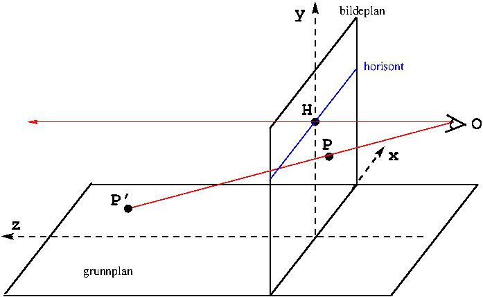 Coordinates for Alberti construction of central projection.